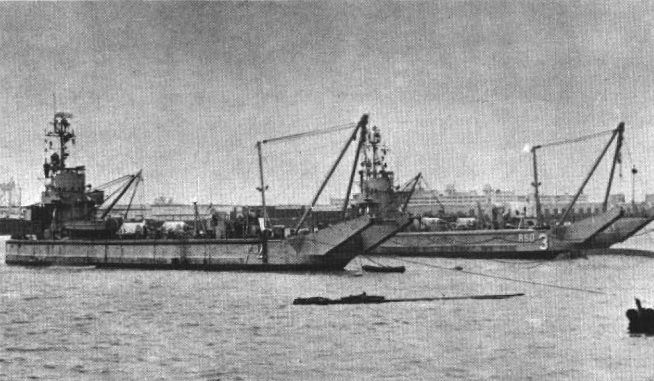 The U.S. Navy Gypsy-class salvage lifting vessels USS Mender (ARS(D)-2) and USS Salvager (ARS(D)-3) try to raise the capsized survey ship USS Kellar (AGS-25) at New Orleans, Louisiana (USA), after the Hurricane "Betsy" in September 1965.